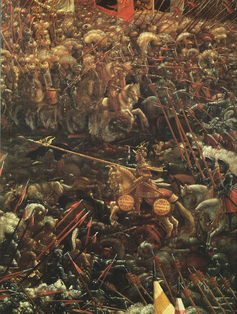 Battle of Alexander the Great against Persian King Darius